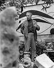 André Verdet